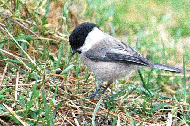 Poecile montanus from Commanster, Belgian High Ardennes .